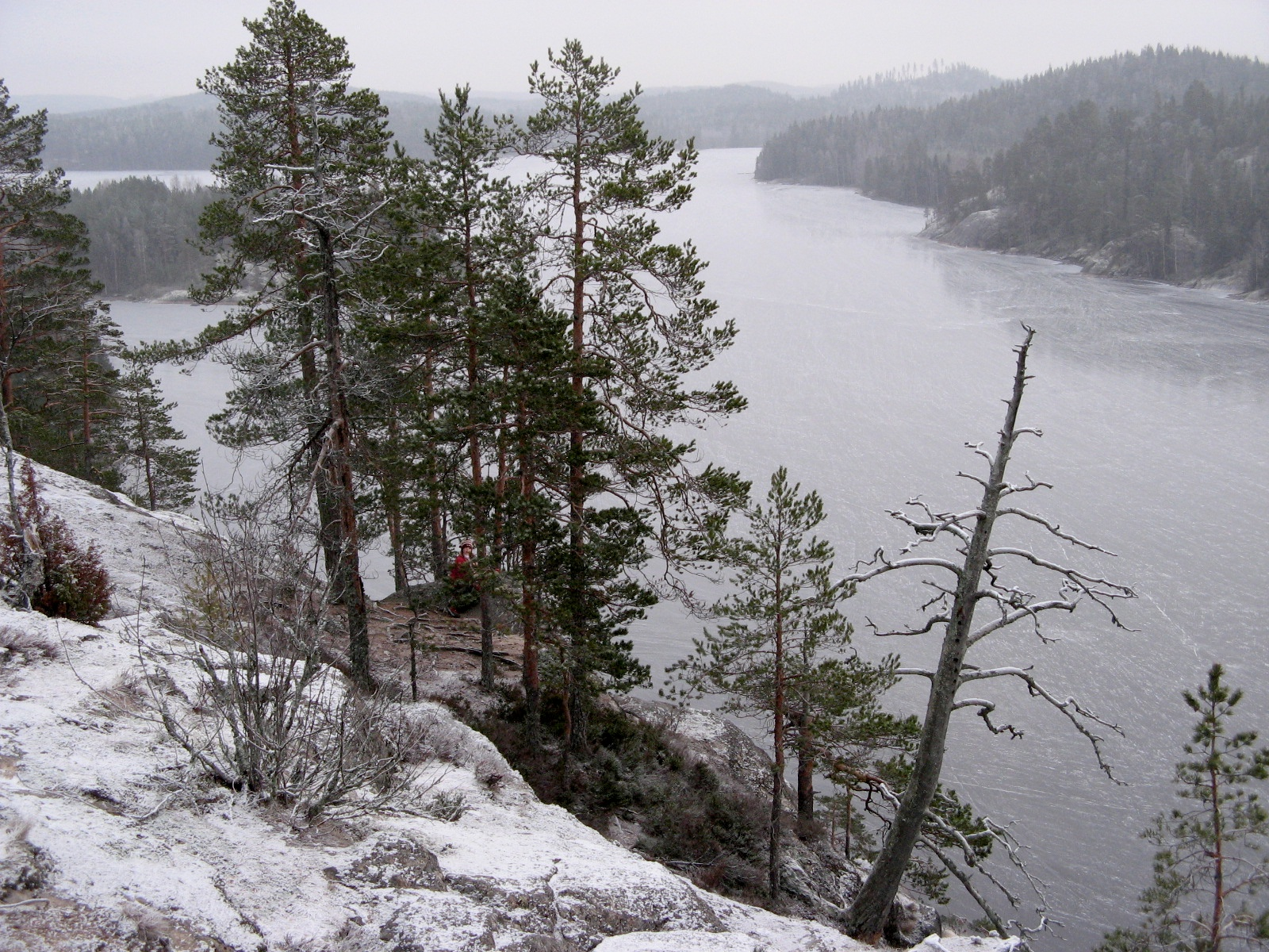 View from Linnavuori (hill fort) in Sulkava